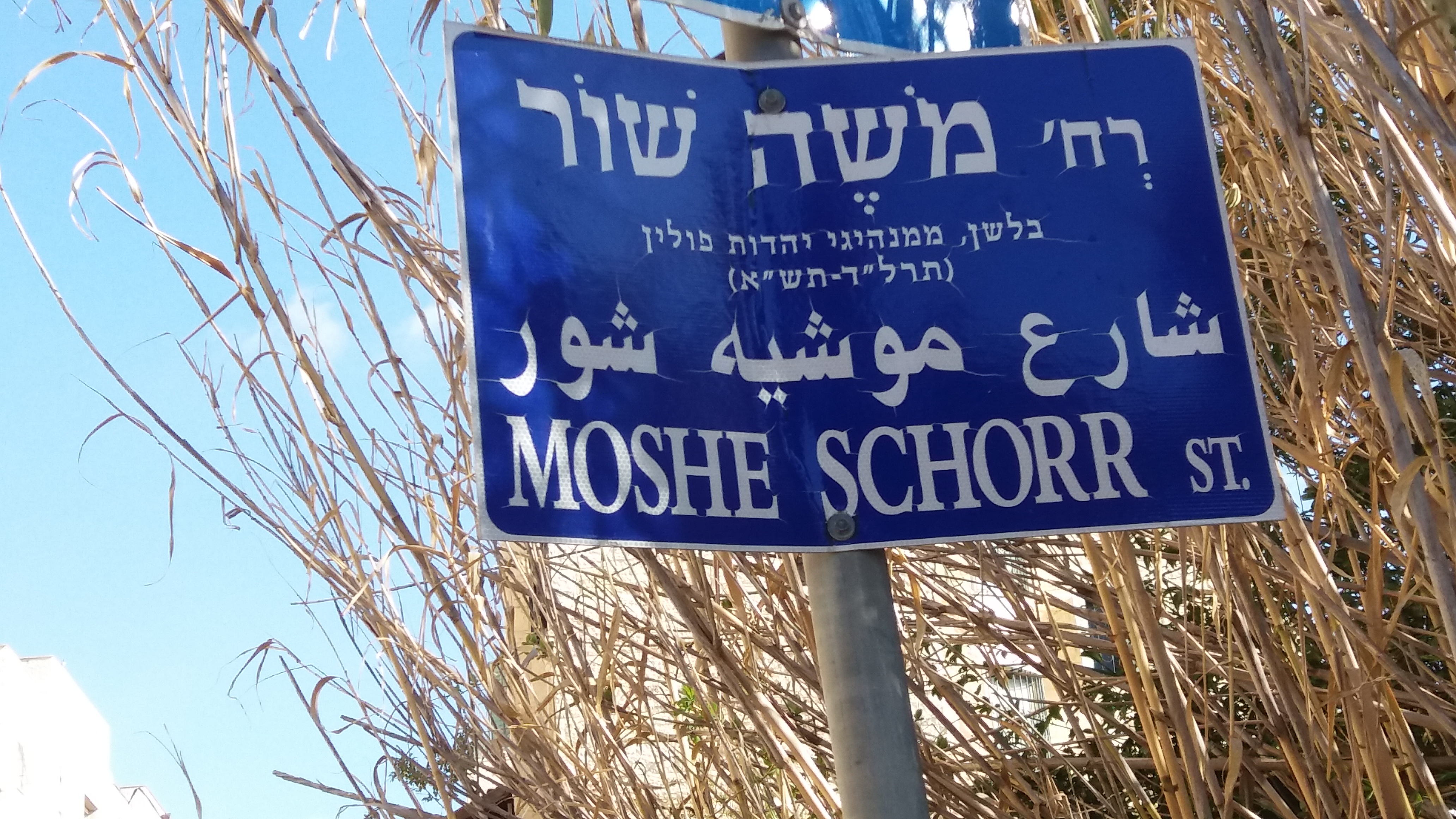 Street name sign of Moshe Schorr Street in Ramot Alon neighborhood in Jerusalem.